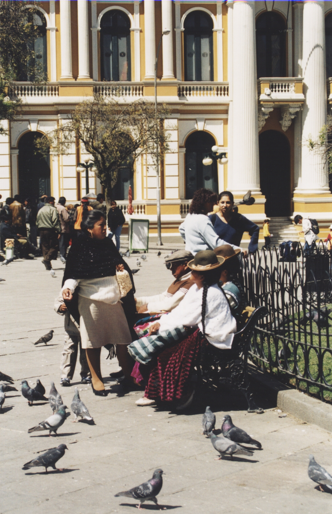 Women Plaza Murillo in La Paz in Bolivia.